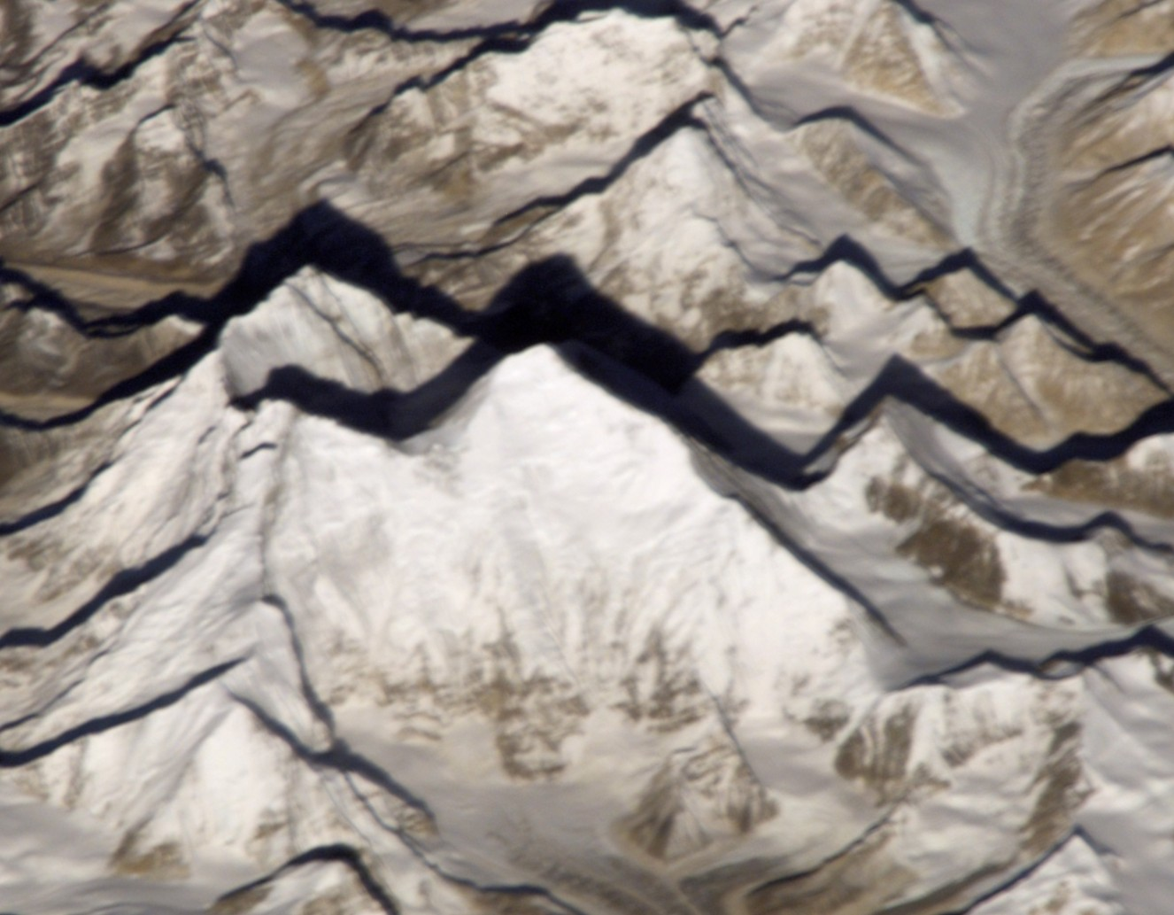 Mount Everest from space, with local features annotated.